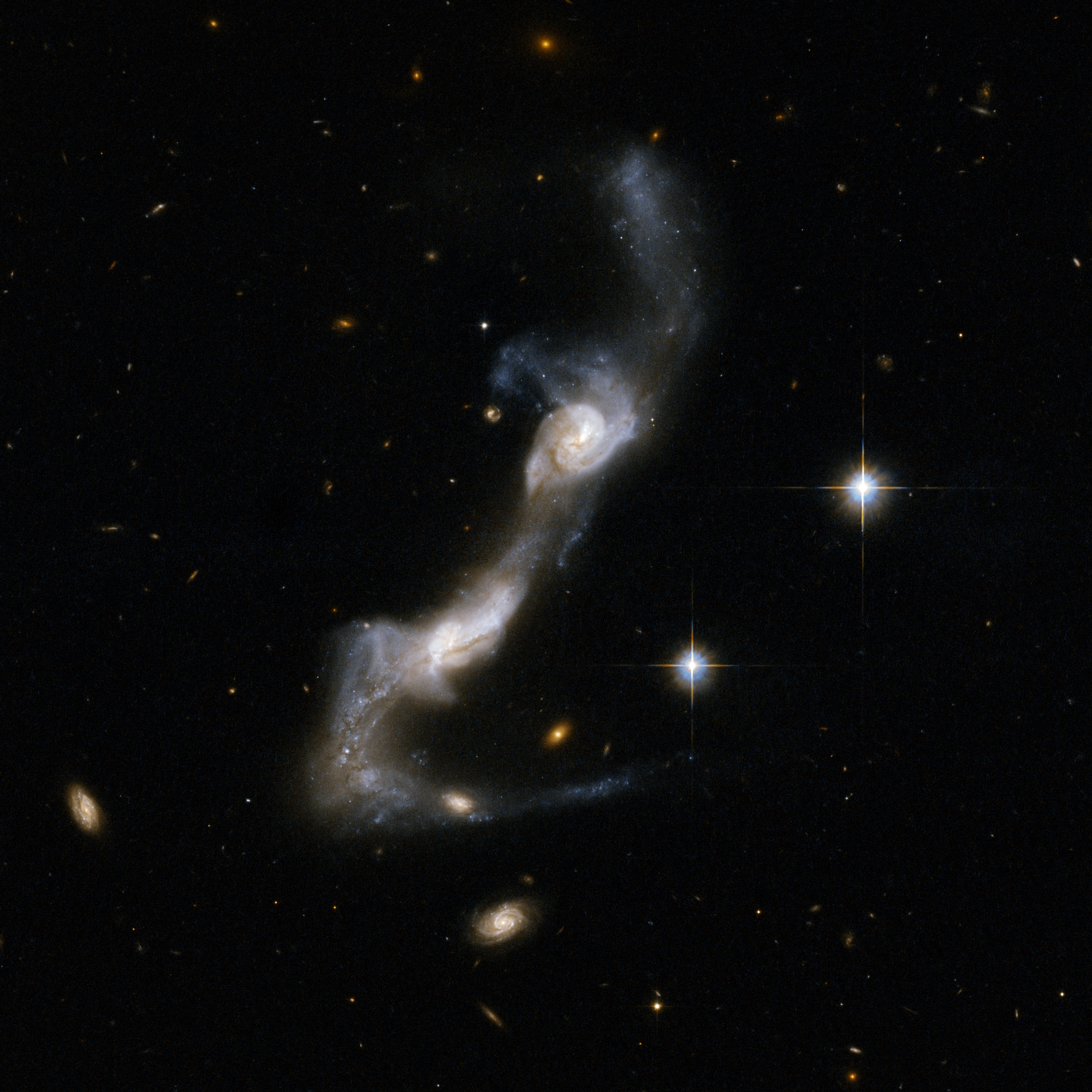 UGC 8335 is a strongly interacting pair of spiral galaxies resembling two ice skaters. The interaction has united the galaxies via a bridge of material and has yanked two strongly curved tails of gas and stars from the outer parts of their bodies . Both galaxies show dust lanes in their centers. UGC 8335 is located in the constellation of Ursa Major, the Great Bear, about 400 million light-years from Earth. It is the 238th galaxy in Arp's Atlas of Peculiar Galaxies. This image is part of a large collection of 59 images of merging galaxies taken by the Hubble Space Telescope and released on the occasion of its 18th anniversary on 24th April 2008. About the objectObject nameUGC 8335, VV 250a, Arp 238, KPG 369BObject descriptionInteracting GalaxiesPosition (J2000)13 15 34.50 +62 07 33.9ConstellationUrsa MajorDistance400 million light-years (150 million parsecs)About the dataData descriptionThe Hubble image was created using HST data from proposal 10592: A. Evans (University of Virginia, Charlottesville/NRAO/Stony Brook University)InstrumentACS/WFCExposure date(s)May 10, 2002Exposure time36 minutesFiltersF435W (B) and F814W (I)